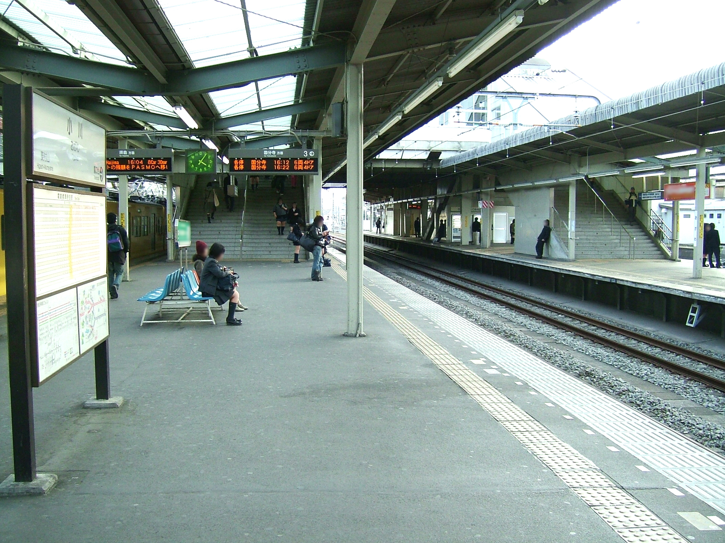 Ogawa Station platform (Seibu Haijima Line, Seibu Kokubunji Line)